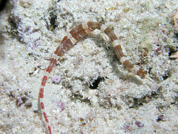 Brown-banded pipefish (Corythoichthys amplexus), Dawson & Randall, 1975, Fiji. Image taken by Clark Anderson/Aquaimages.